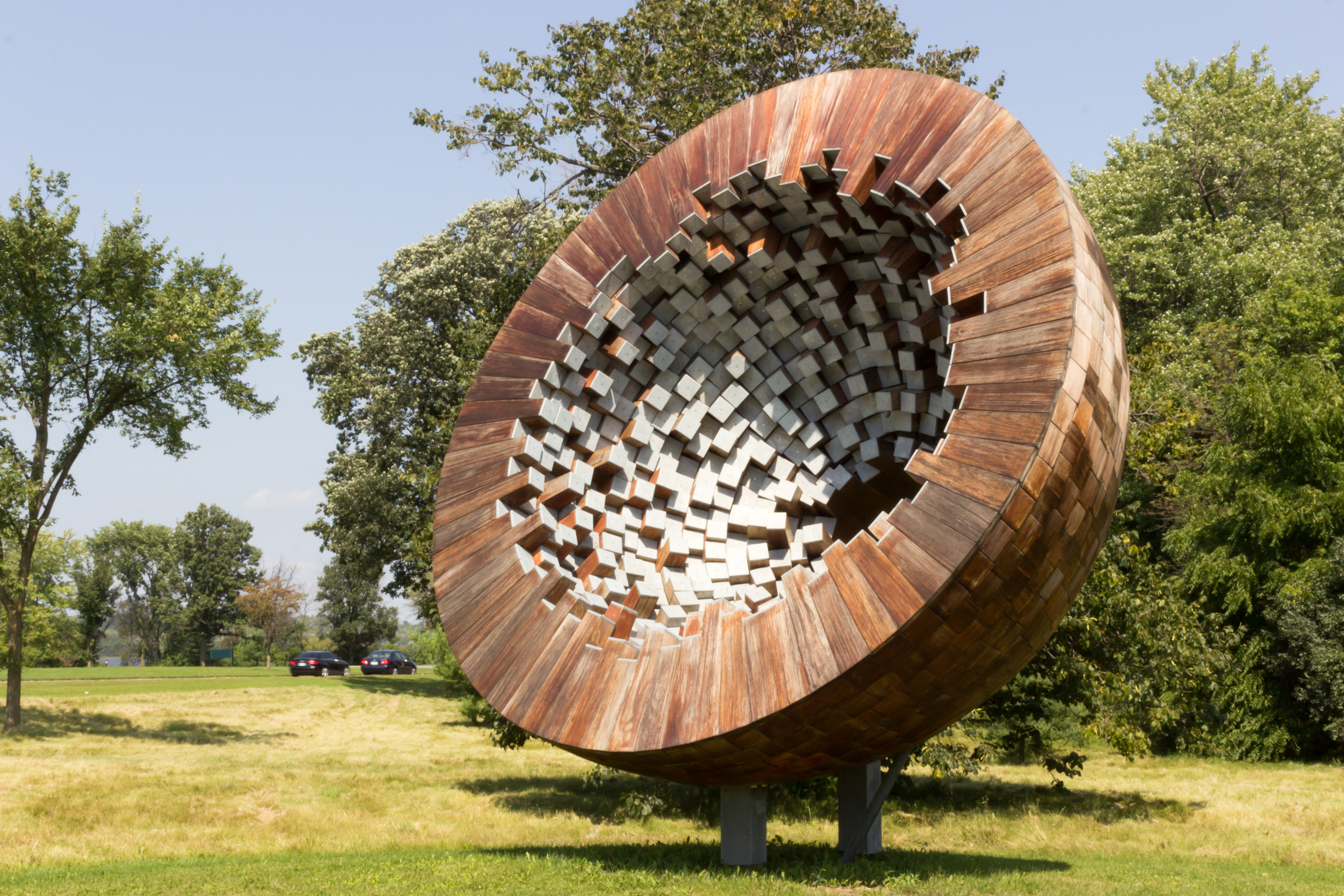 Memorial to the fallen diplomats in Ottawa near Island Park Drive